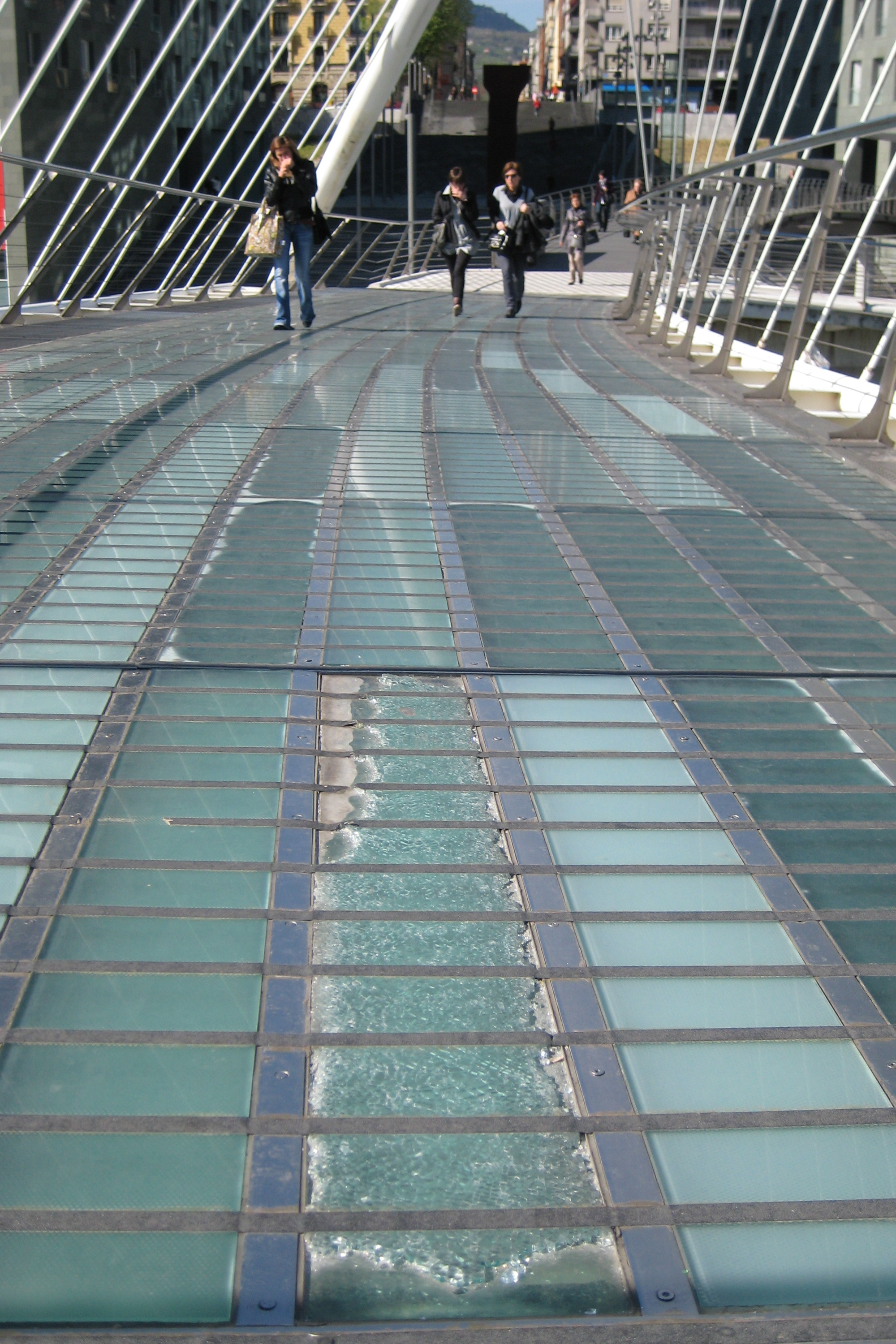 Glass tiles on Zubizuri bridge, Bilbao. One of them is broken, but it stays on the floor until the arrival of the replacement (having different shapes, there is not one replacement tile which fits in every position). Gary transversal lines are stripes sticked to the floor in order to prevent pedestrians to slip